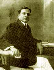 Picture of Dadasaheb Phalke.